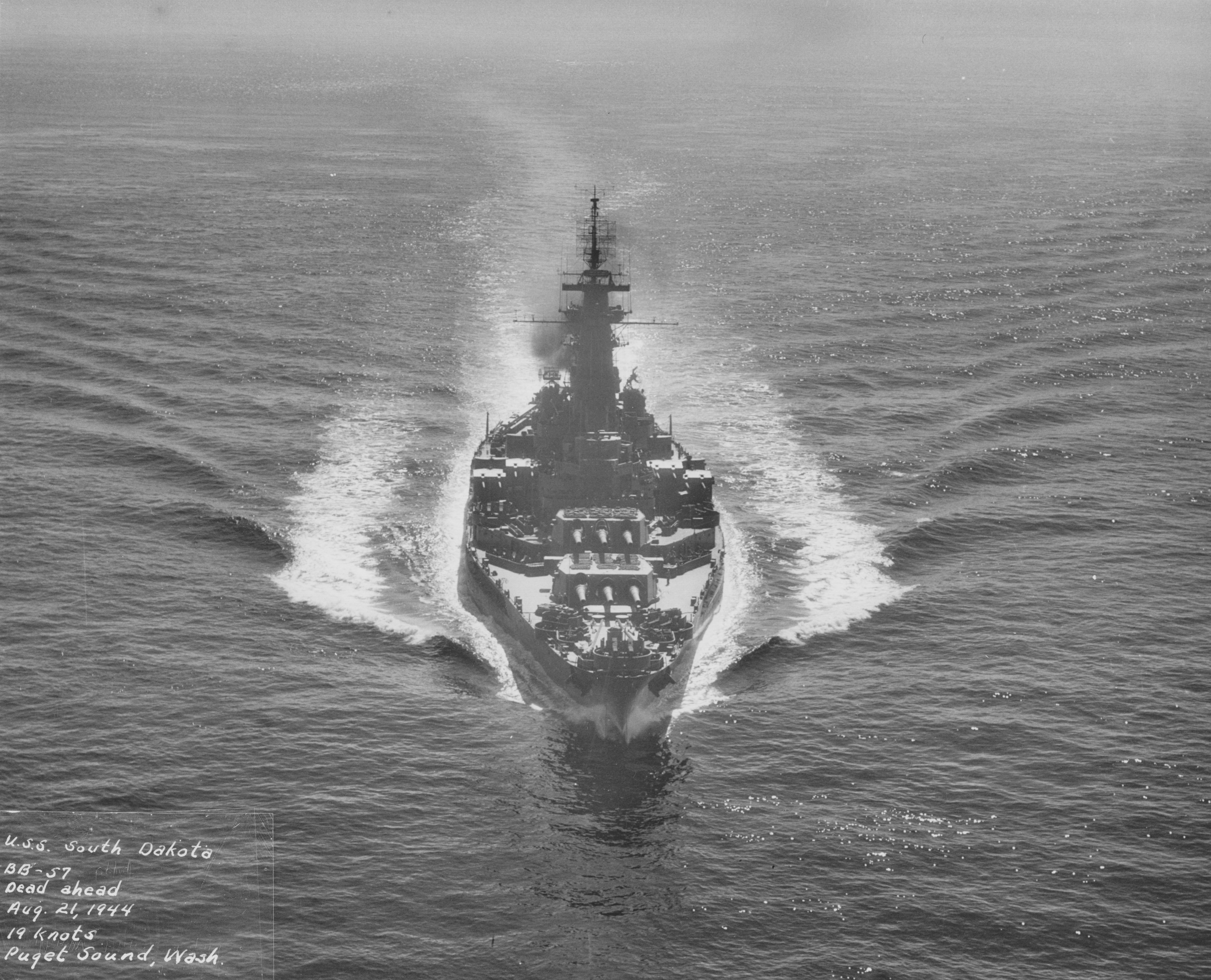 Aerial view from dead ahead of the USS South Dakota in Puget Sound. Box: 19LCM, BB-57, BN204; Folder: BS 70904 - 70916 BS 709xx (no number on photo)